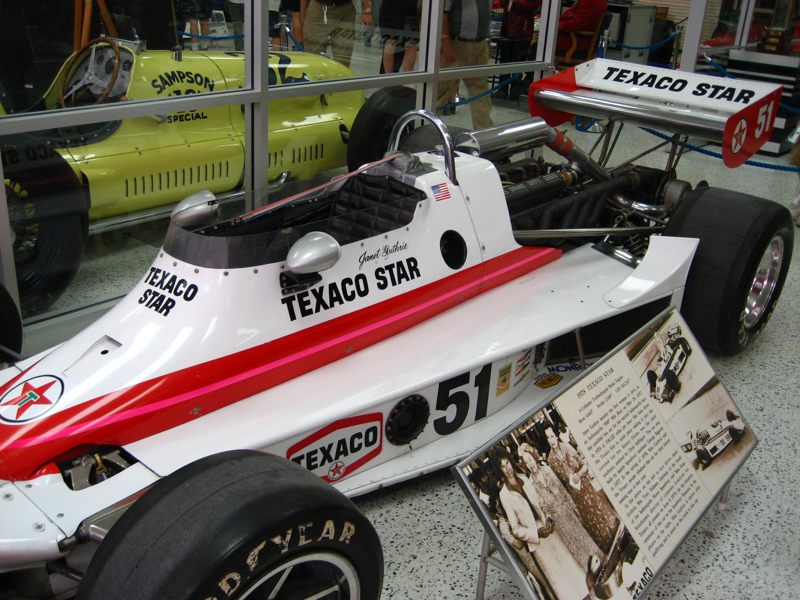 Janet Guthrie's 1978 Wildcat on display at the Indianapolis Motor Speedway Hall of Fame Museum